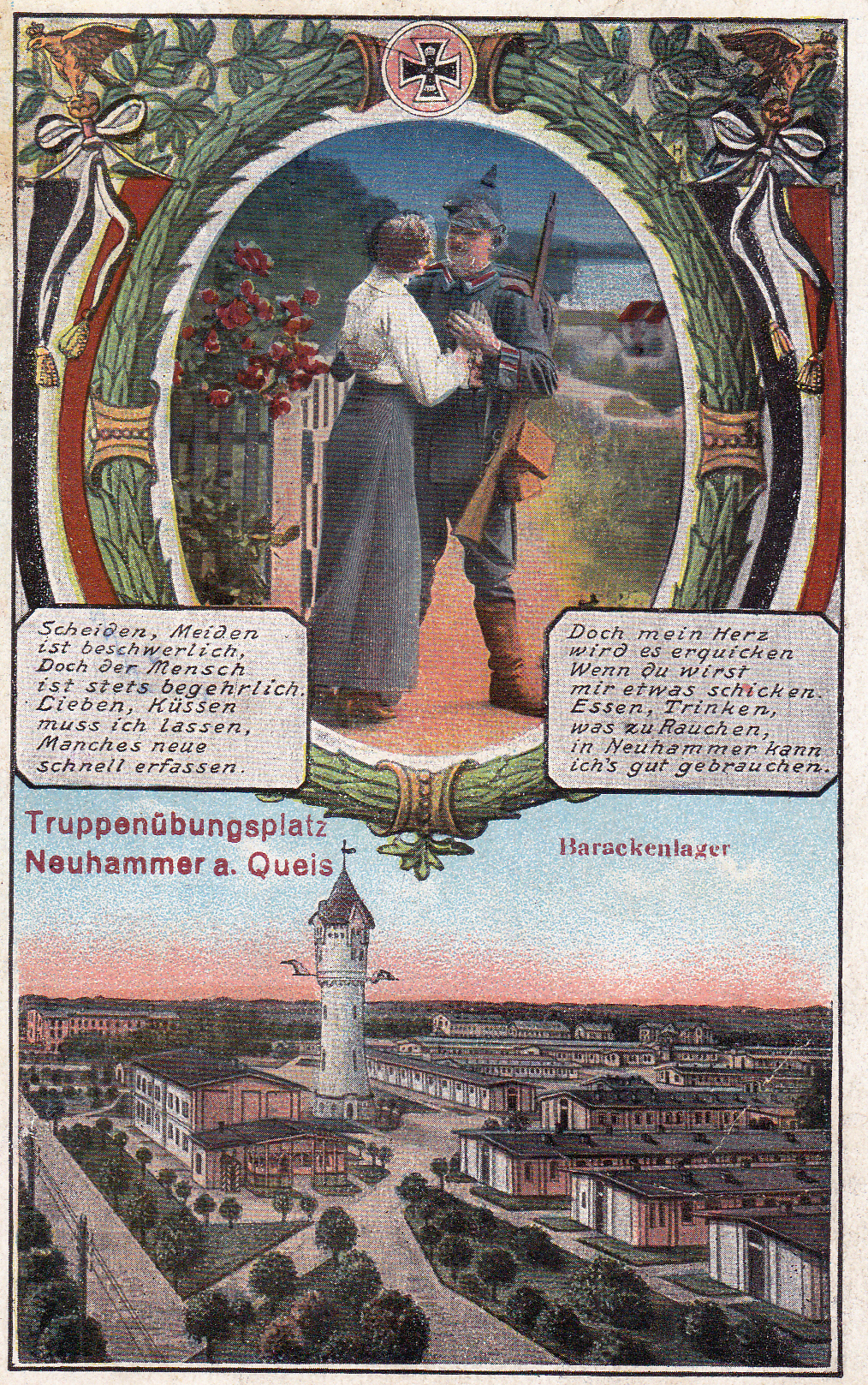 Świętoszów (German: Neuhammer am Queis). Lithographic postcard sent June 22, 1918 from Kłodzko (German: Glatz). The postcard shows the military training ground (founded in 1898),a water tower from the early 20th century and patriotic image - Prussian soldier. Publisher: H.L.B.